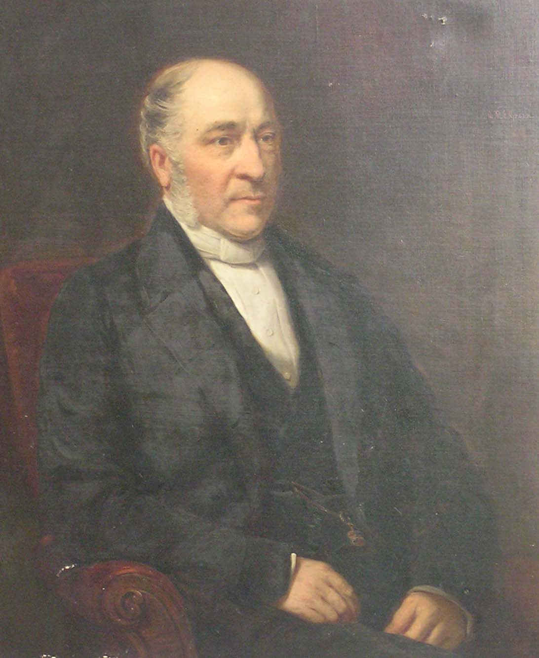 Samuel Budgett (27 July 1794 – 29 April 1851), Portrait in oil